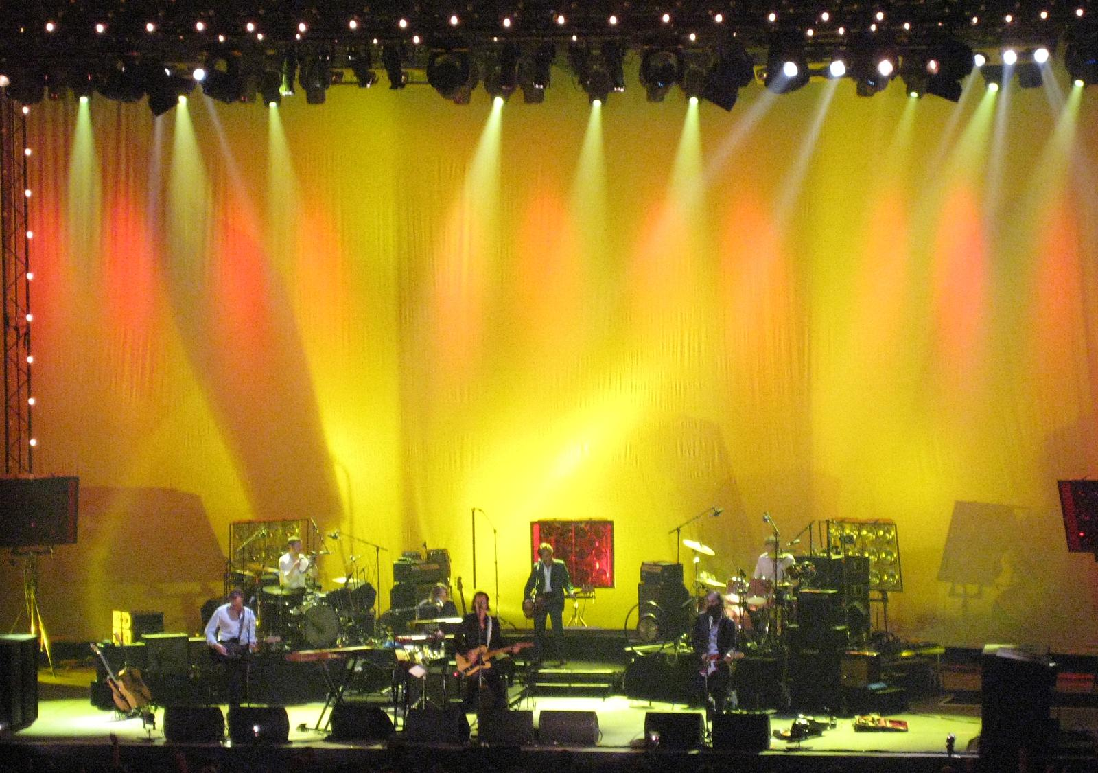 Nick Cave & The Bad Seeds live @ Pavelló Olímpic de Badalona